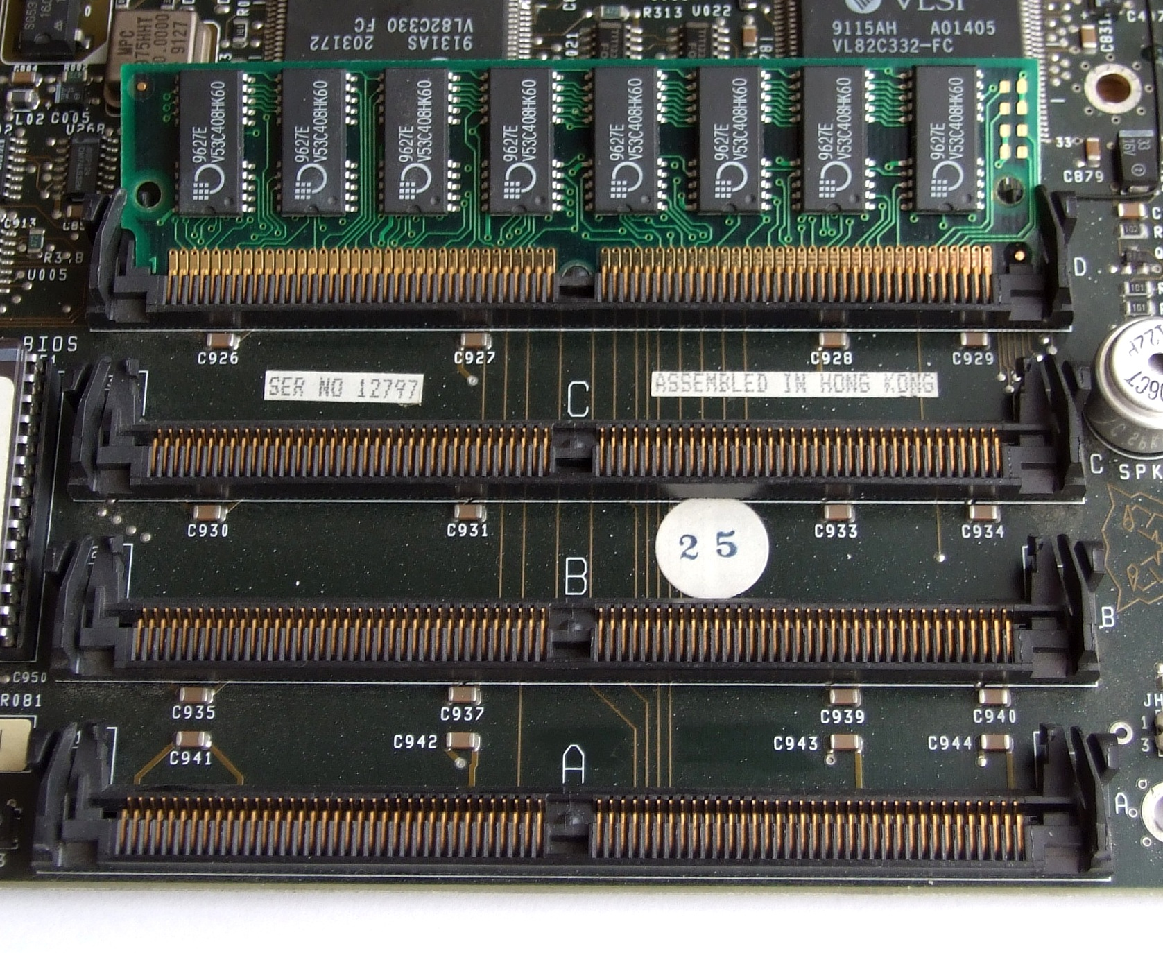 Four PS/2-SIMM slots.